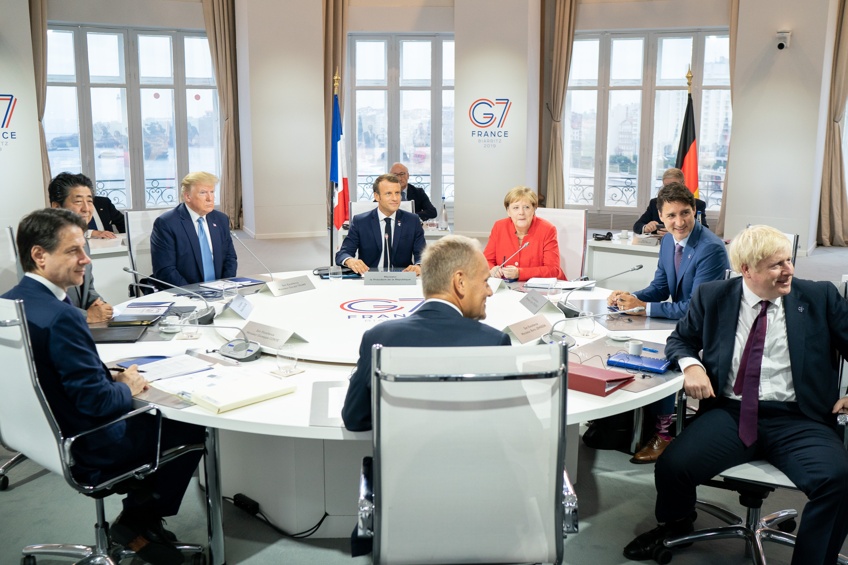 President Donald J. Trump joins G7 Leaders Italian Prime Minister Giuseppe Conte; European Council President Donald Tusk; Japan Prime Minister Shinzo Abe; United Kingdom Prime Minister Boris Johnson; German Chancellor Angela Merkel; Canadian Prime Minister Justin Trudeau and G7 Summit host French President Emmanuel Macron during a G7 Working Session on Global Economy, Foreign Policy and Security Affairs at the Centre de Congrés Bellevue Sunday, Aug. 25, 2019, in Biarritz, France. (Official White House Photo by Shealah Craighead)